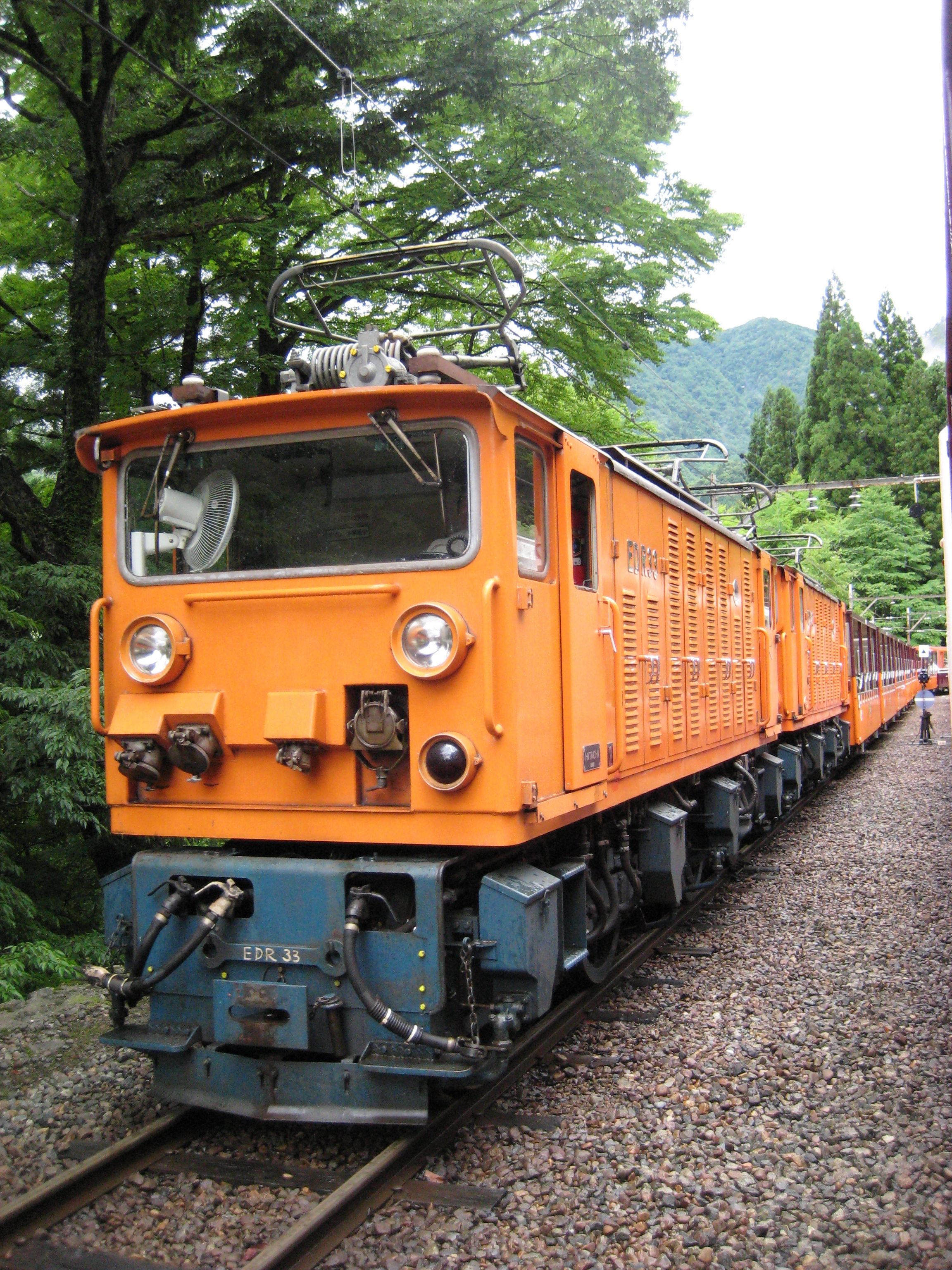 Kurobe Gorge Railway EDR33 locomotive